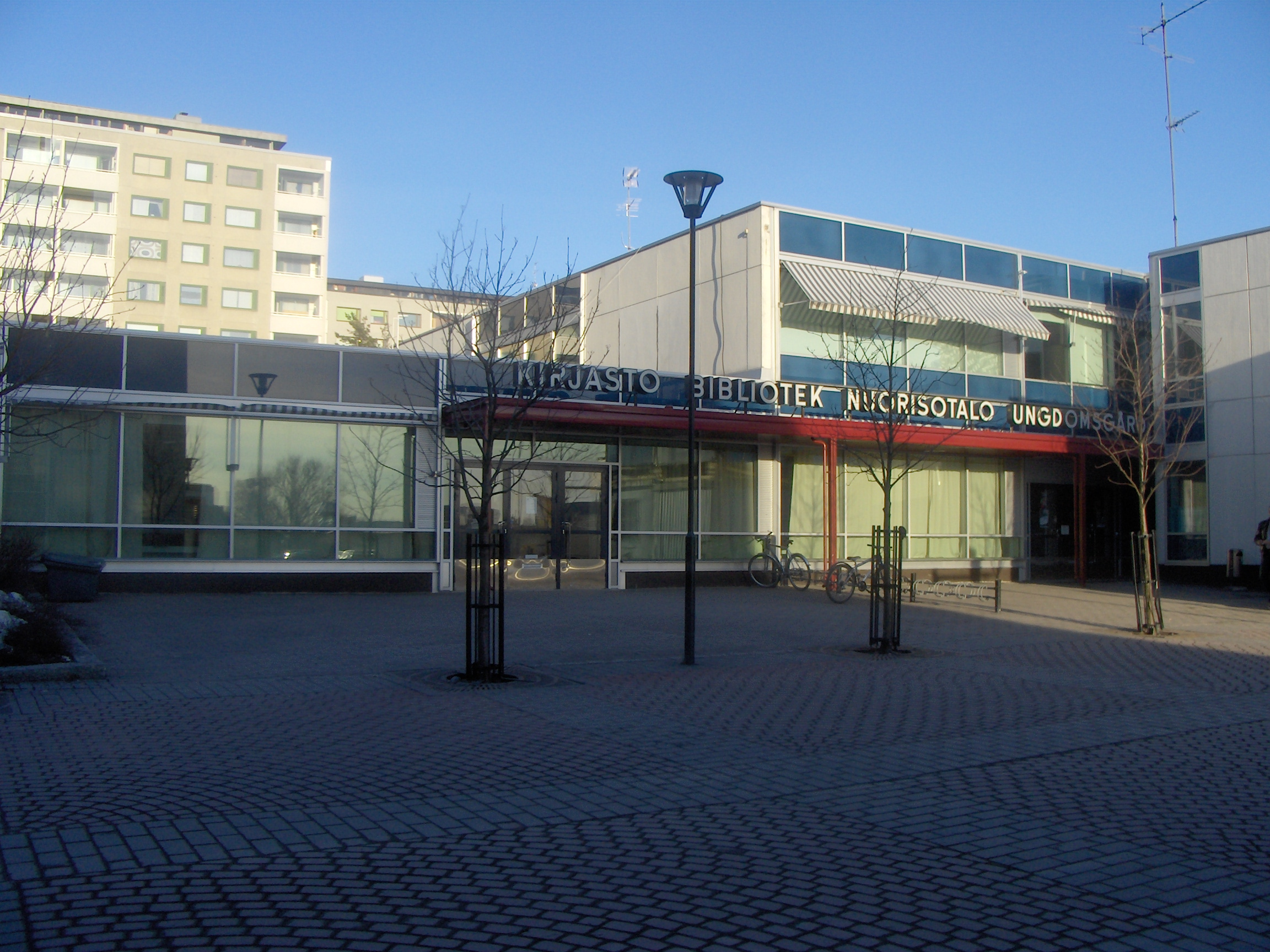 Kontula library in Helsinki, Finland.